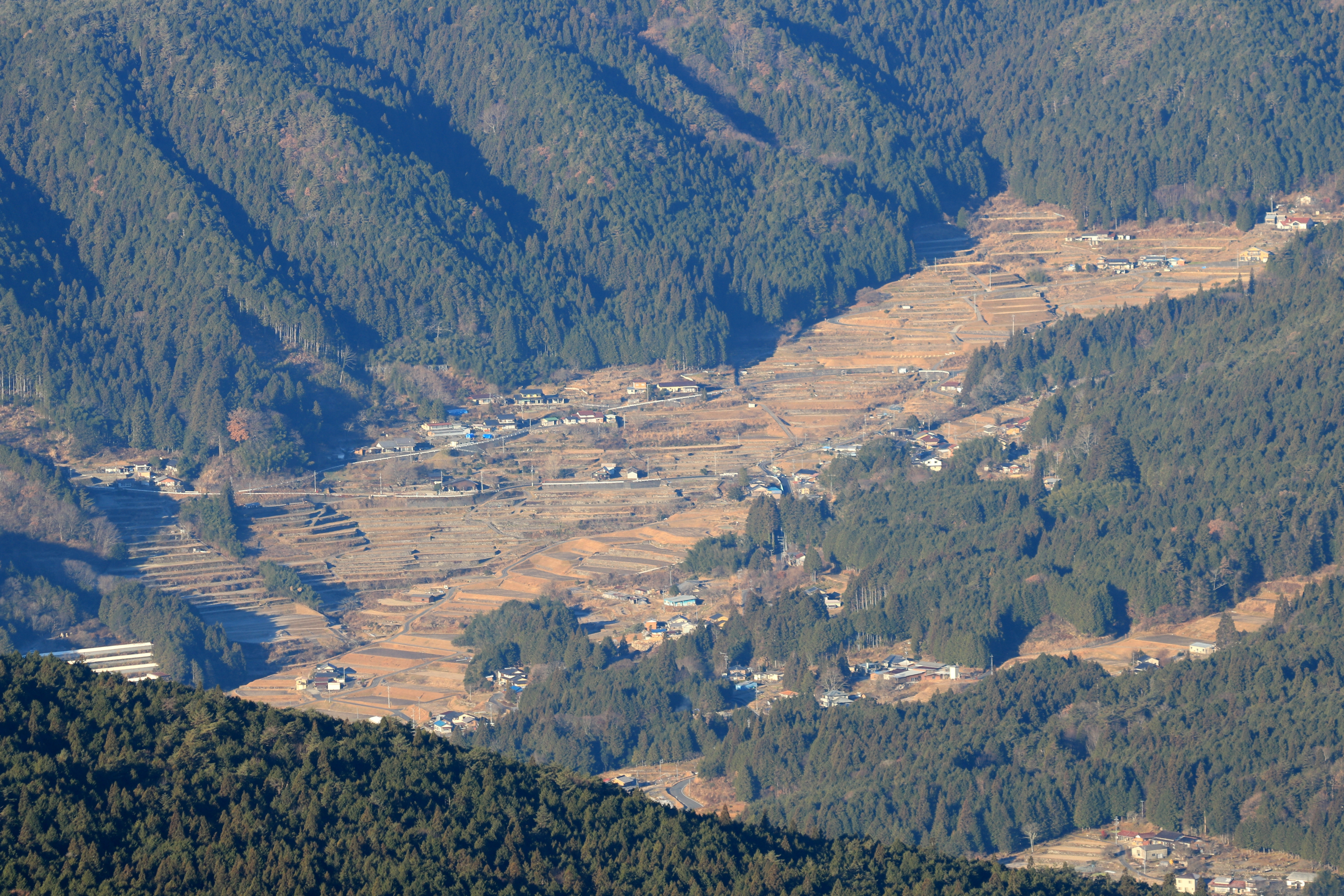 Sakaori Tanada seen from Mount Kasagi in Nakanohocho, Ena, Gifu Prefecture, Japan.